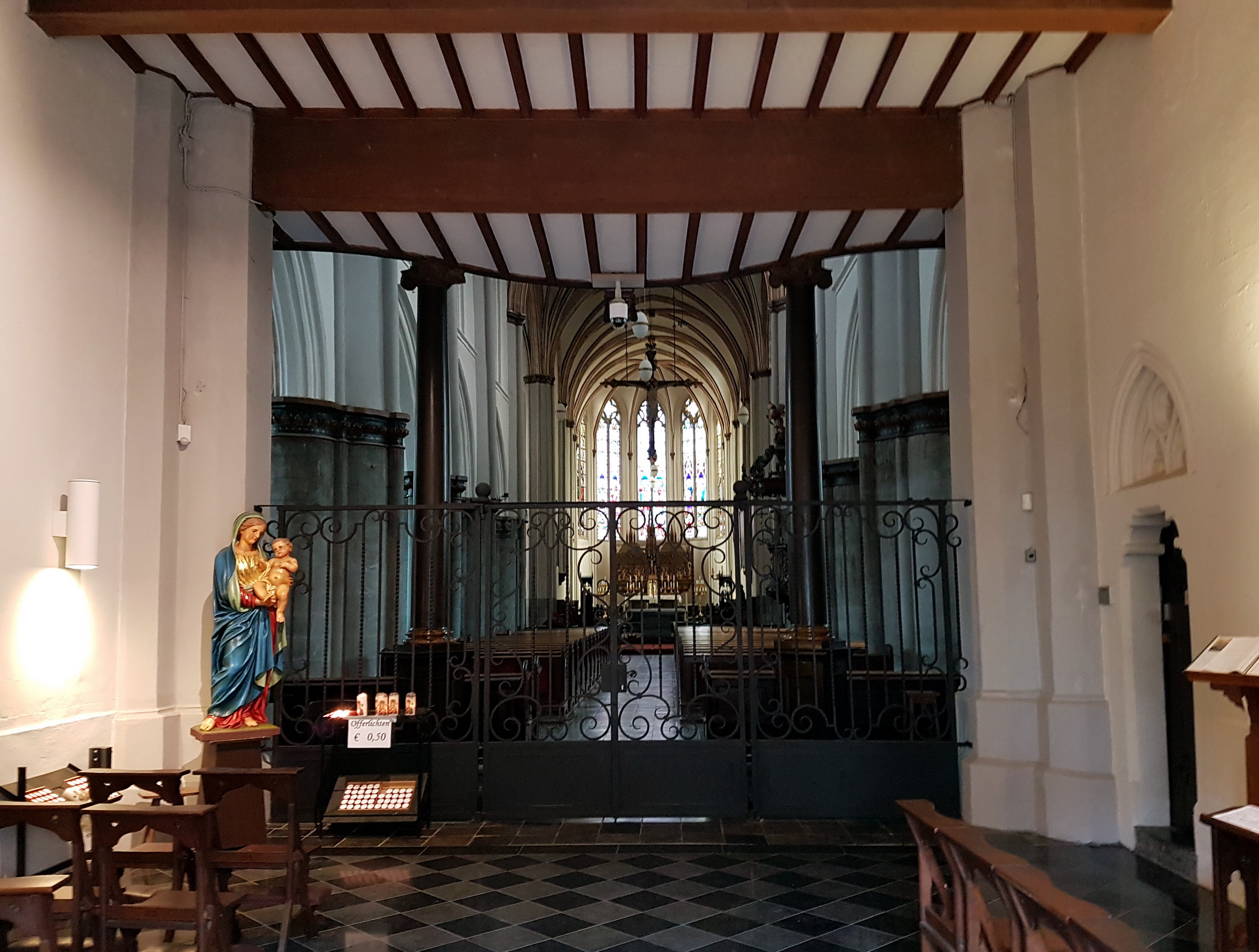 View from the vestibule into the parish church of St. Peter in the centre of Sittard, the Netherlands.